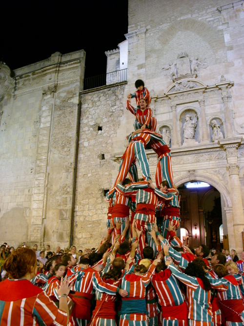 the second folk troupe in the Virgin of Salut feasts building up a muixeranga in front of Saint James church in Algemesí